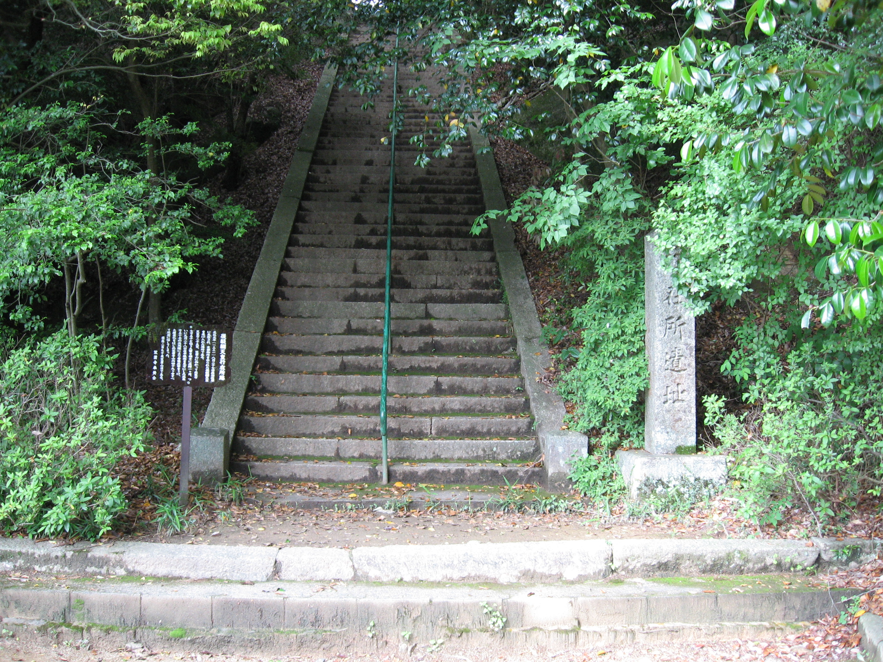 Ruins of Kasagi Anzaisho